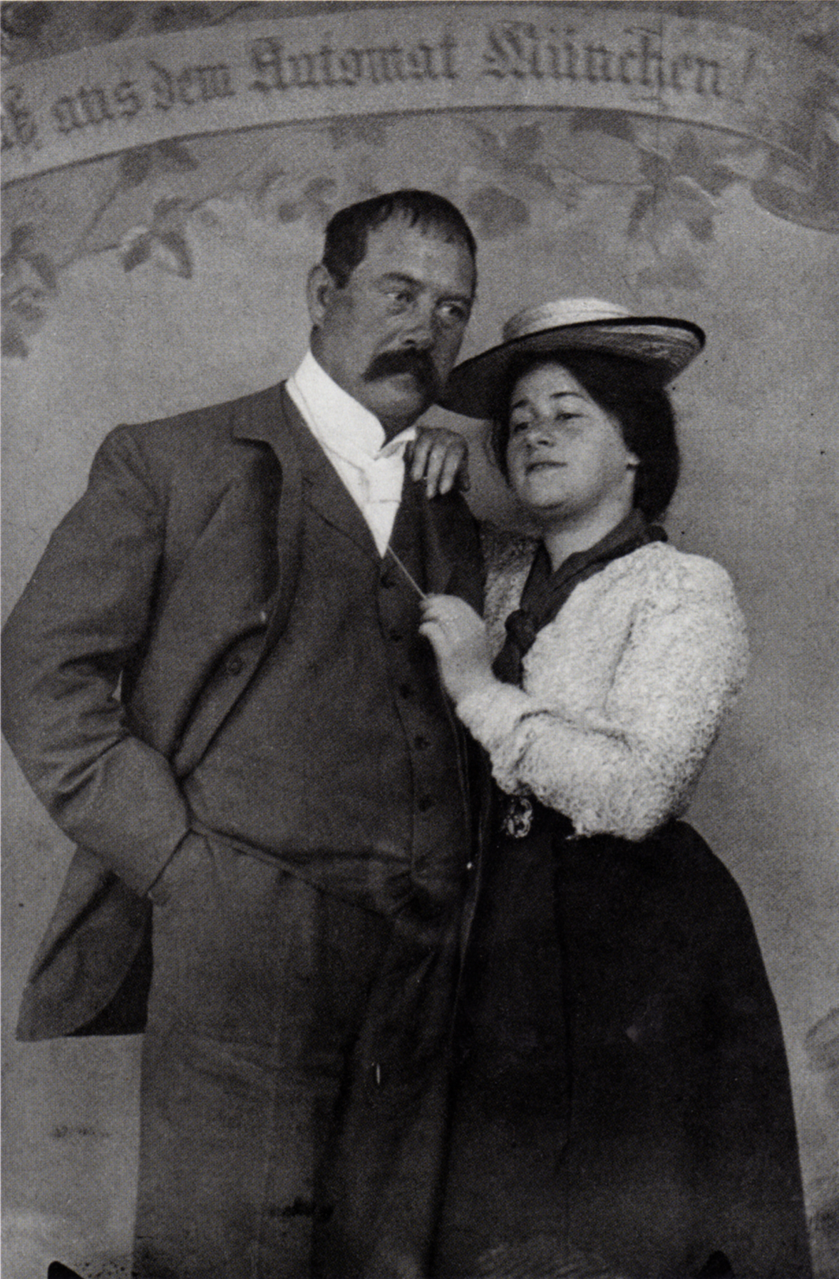 Lovis Corinth and Charlotte Berend in 1902. Text in the background: "[Gru]ß aus dem Automat München!" meaning "[Greeting]s from the Munich [photo?] booth!"